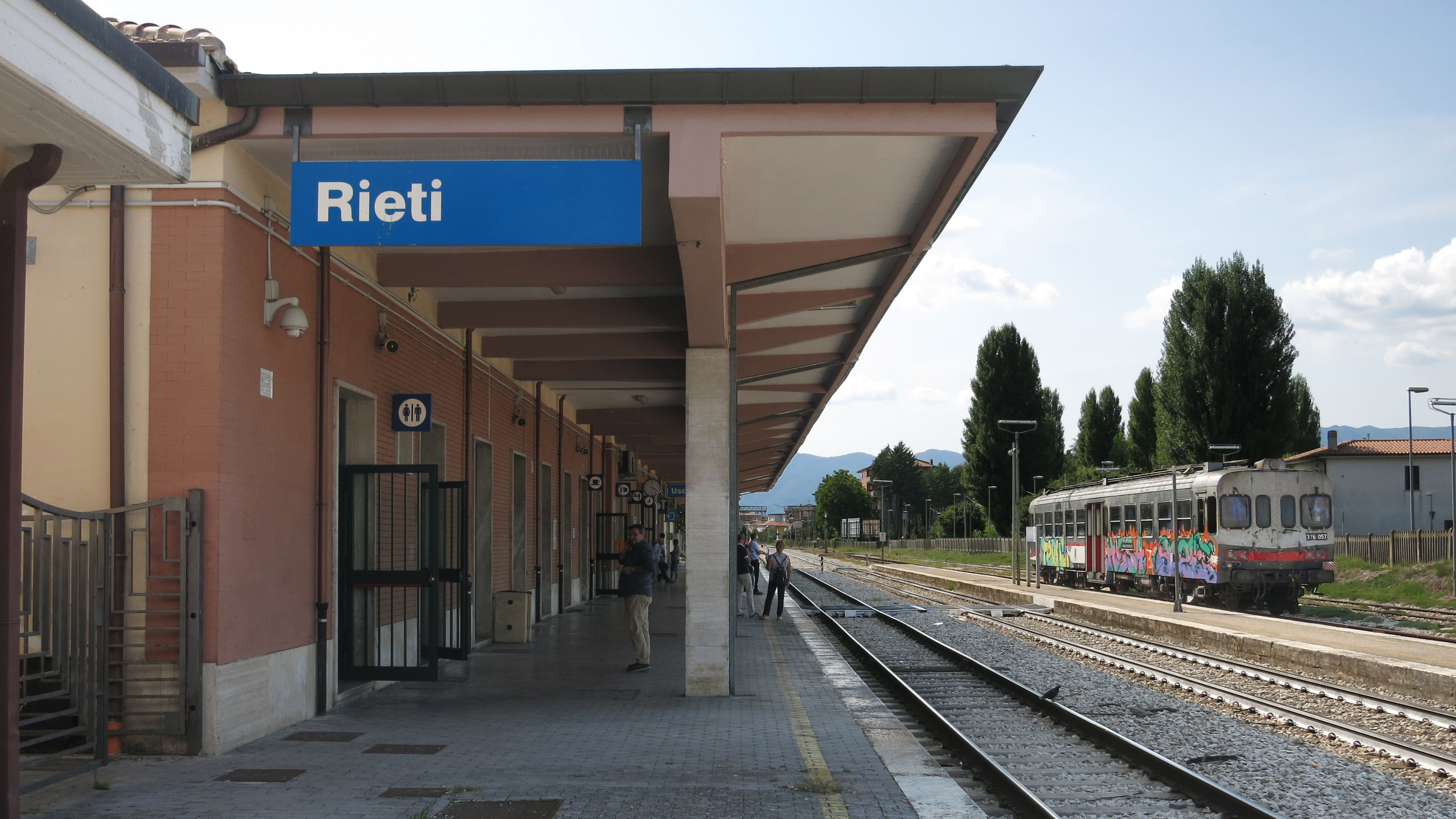 DMU class ALn 776 number 057 in service as regional train 7046 stopping at the Rieti train station, on the Terni-L'Aquila railway